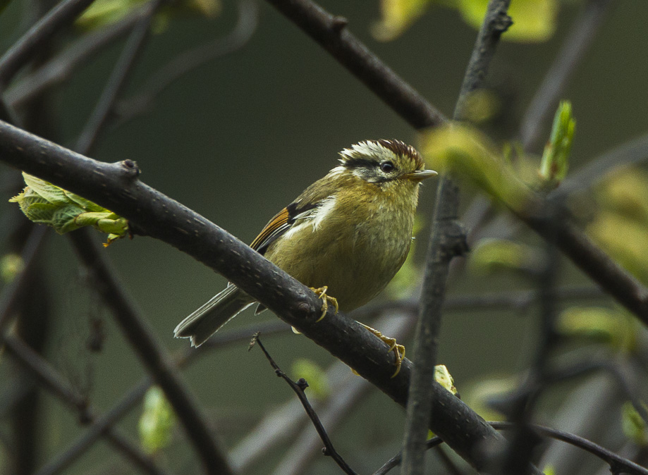 Rufous-winged Fulvetta - Bhutan_S4E8916